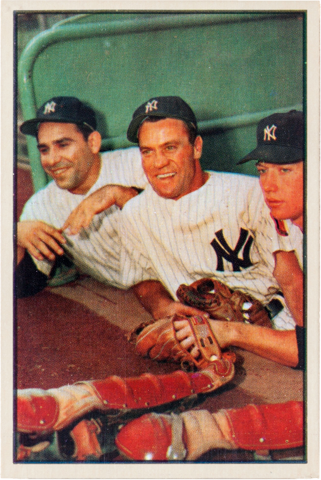 Yankees players (L-R:) Yogi Berra, Hank Bauer, Mickey Mantle in 1953.